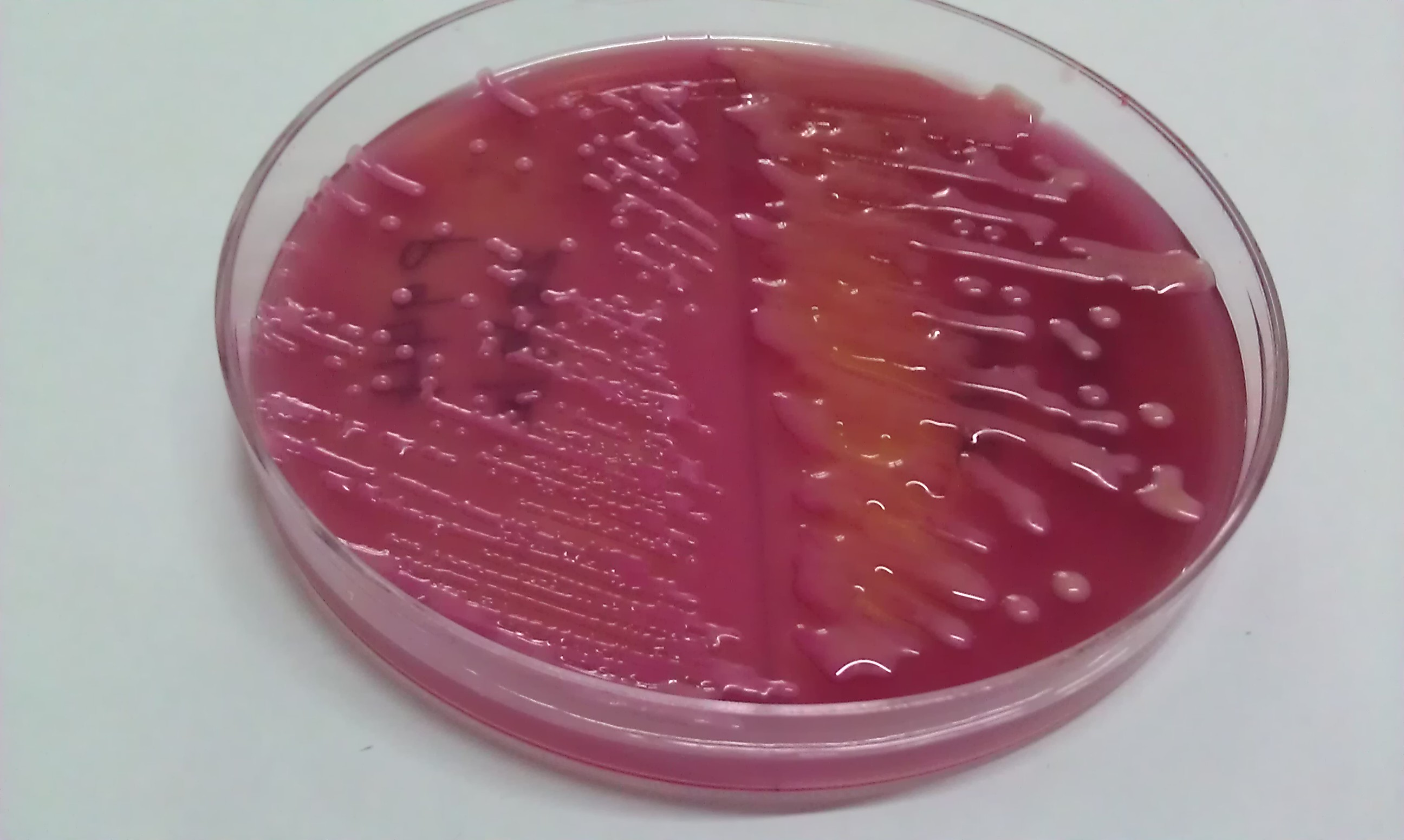 MacConkey's agar showing pink coloured lactose fermenting colonies of Escherichia coli and Klebsiella pneumoniae. The former produces dry colonies whereas the latter produces mucoid colonies.